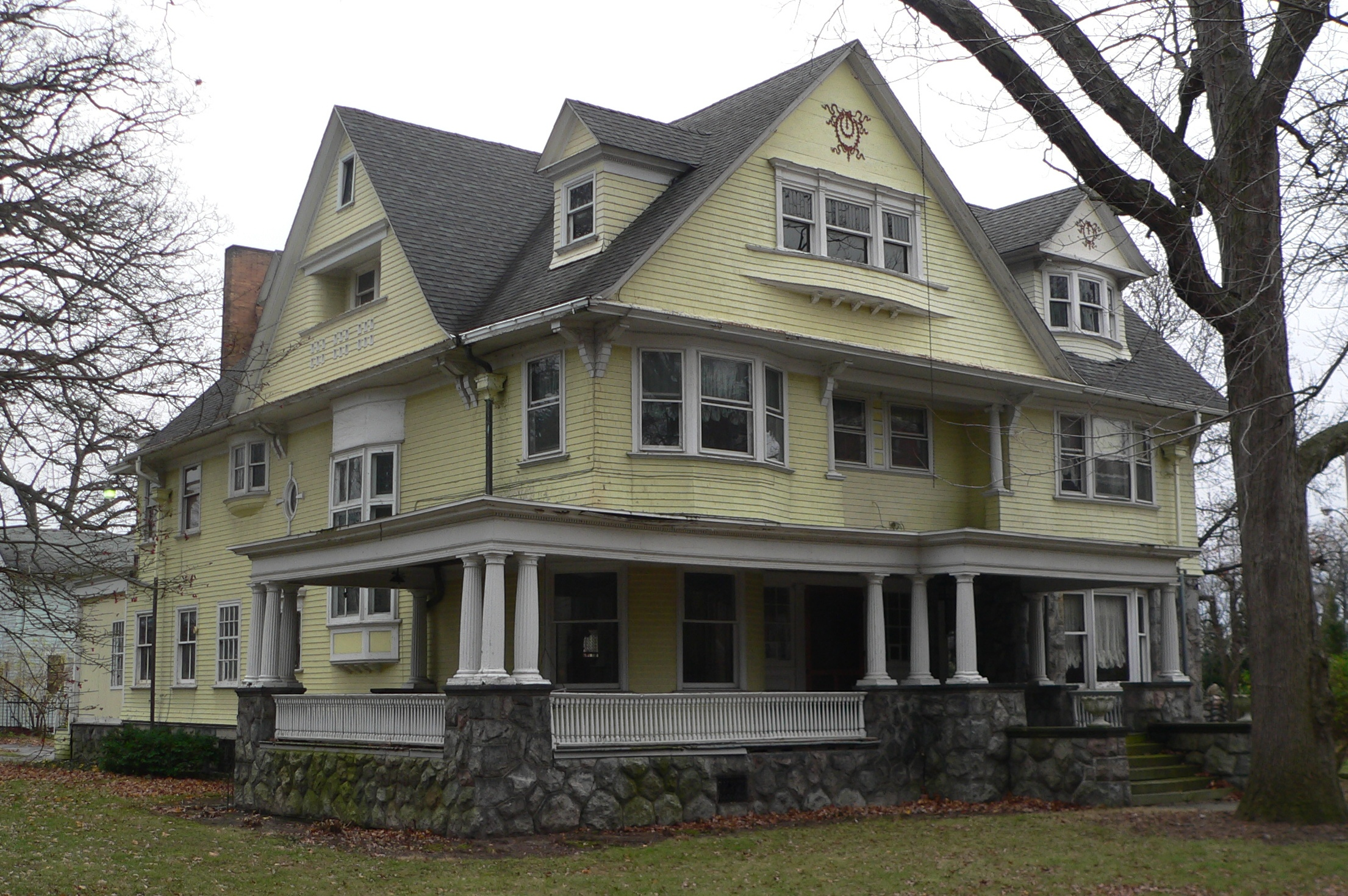 Edward D. Libbey House, located at 2008 Scottwood Avenue in Toledo, Ohio; seen from the northwest.